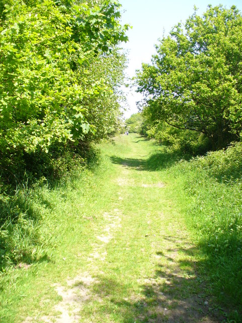 On Bignor Hill Stane Street, one of the many tracks which come together at the large car park on top of Bignor Hill. The chalk and flint base here is masked by grass.